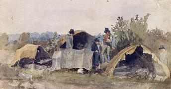 A Gypsy Encampment